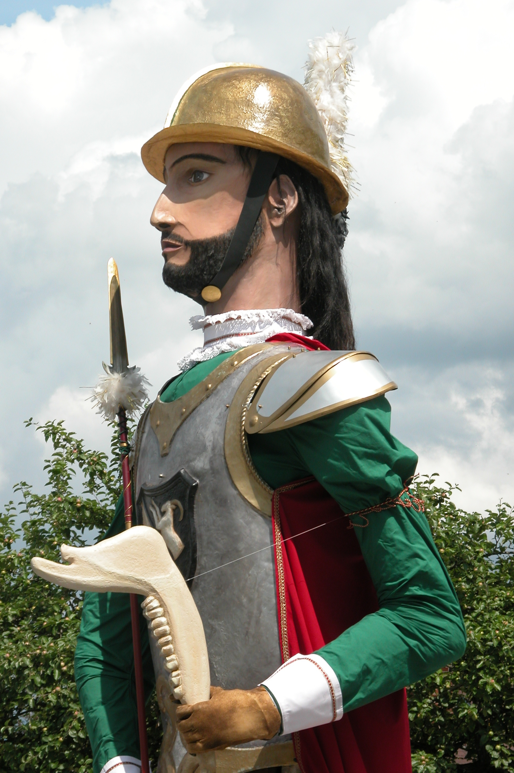 Giant Samoson St.Margarethen Austria (Lungau, Salzburg State)